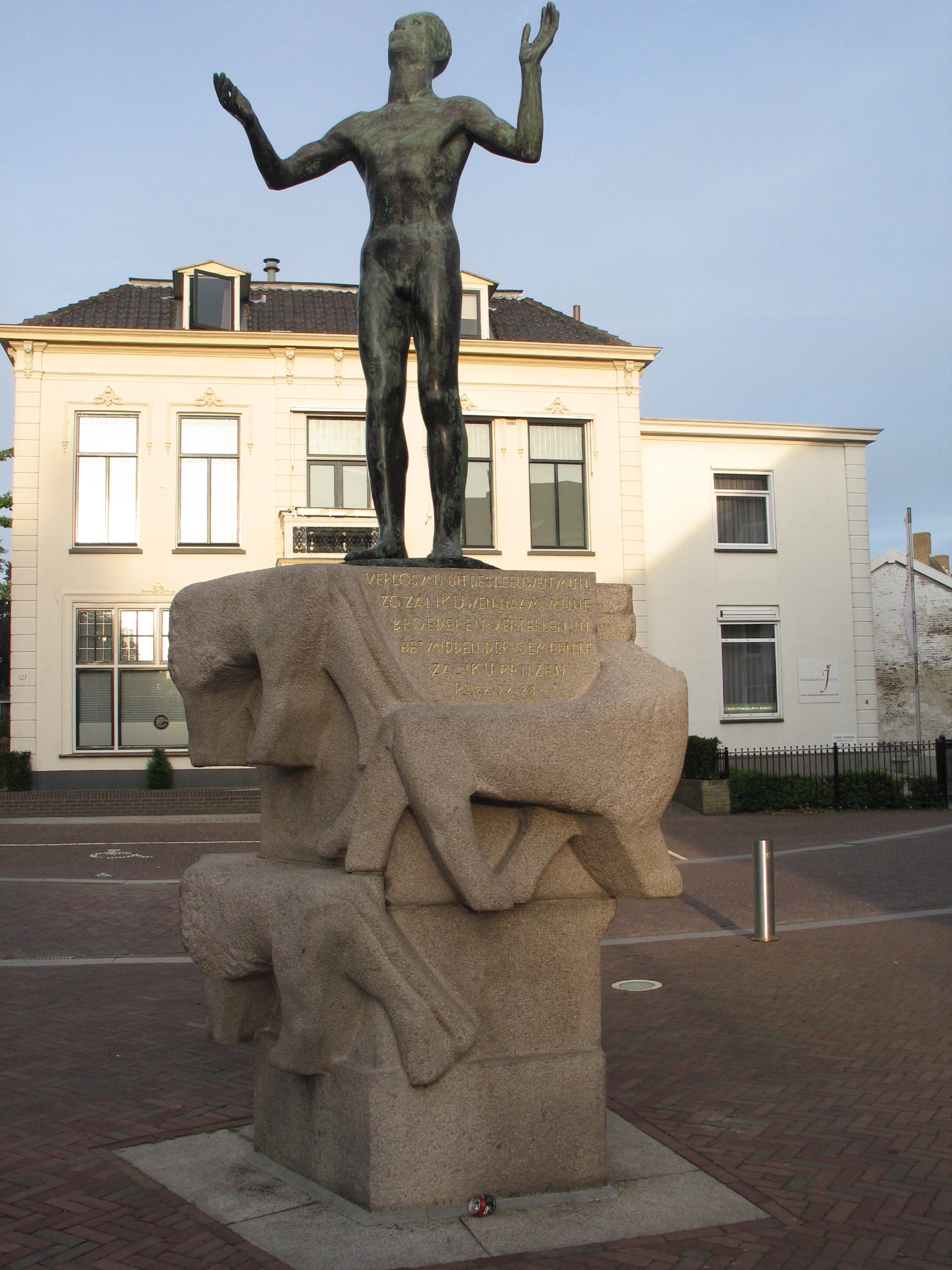 Sculpture/memorial Nationaal Bevrijdingsmonument (1951) by Han Richters at the 5 Mei Plein in Wageningen/The Netherlands